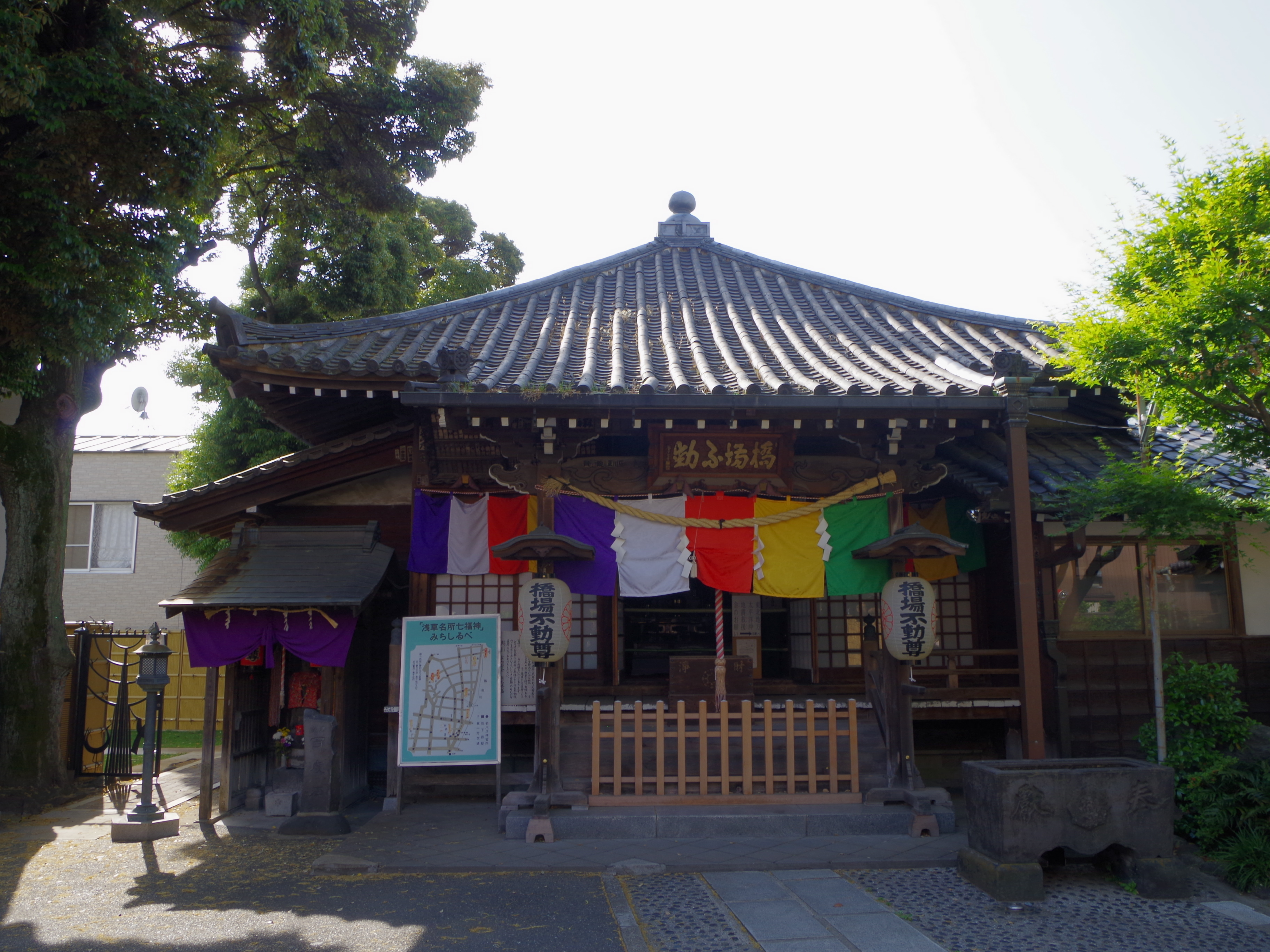 Hashiba-fudōson temple in Taitō, Tokyo